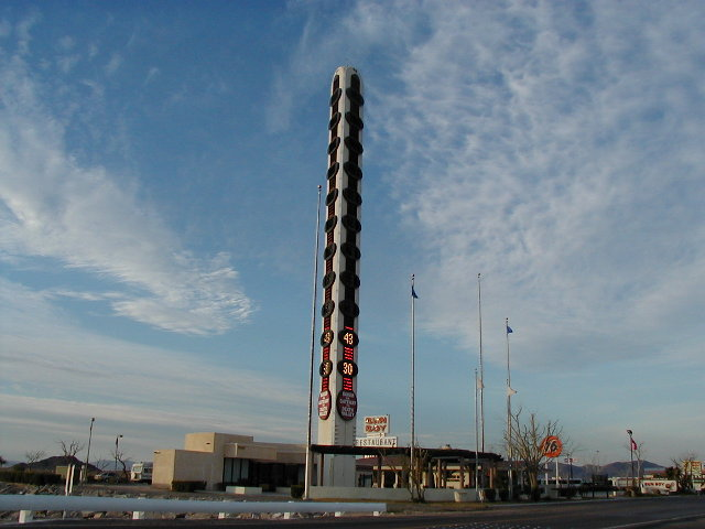 The World's Tallest Thermometer is located in Baker, California. It is 134 feet high. I presume that this is PD-self. The photo is stated to have been created by the uploader, and the "patent" license was described as a public-domain license.